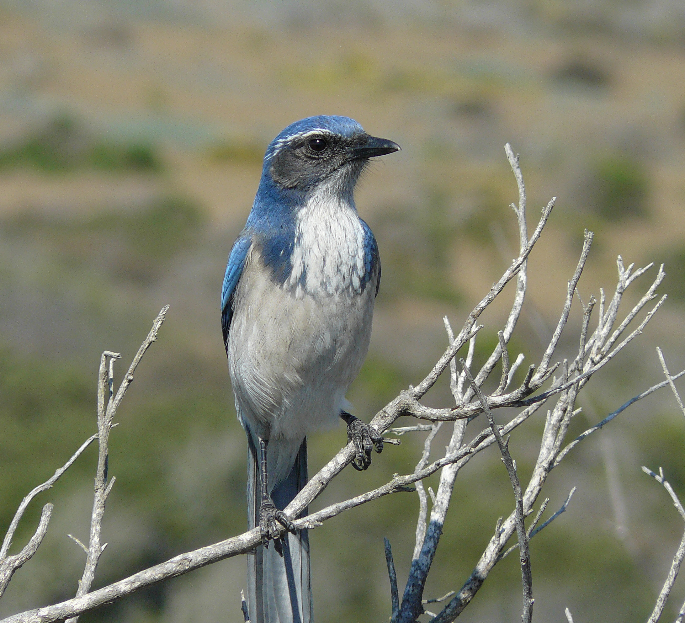 A Western Scrub Jay at Montana de Oro State Park, California, USA.